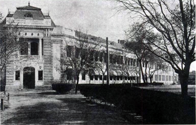 One of the oldest buildings in Tsinghua University in Beijing, 1918.